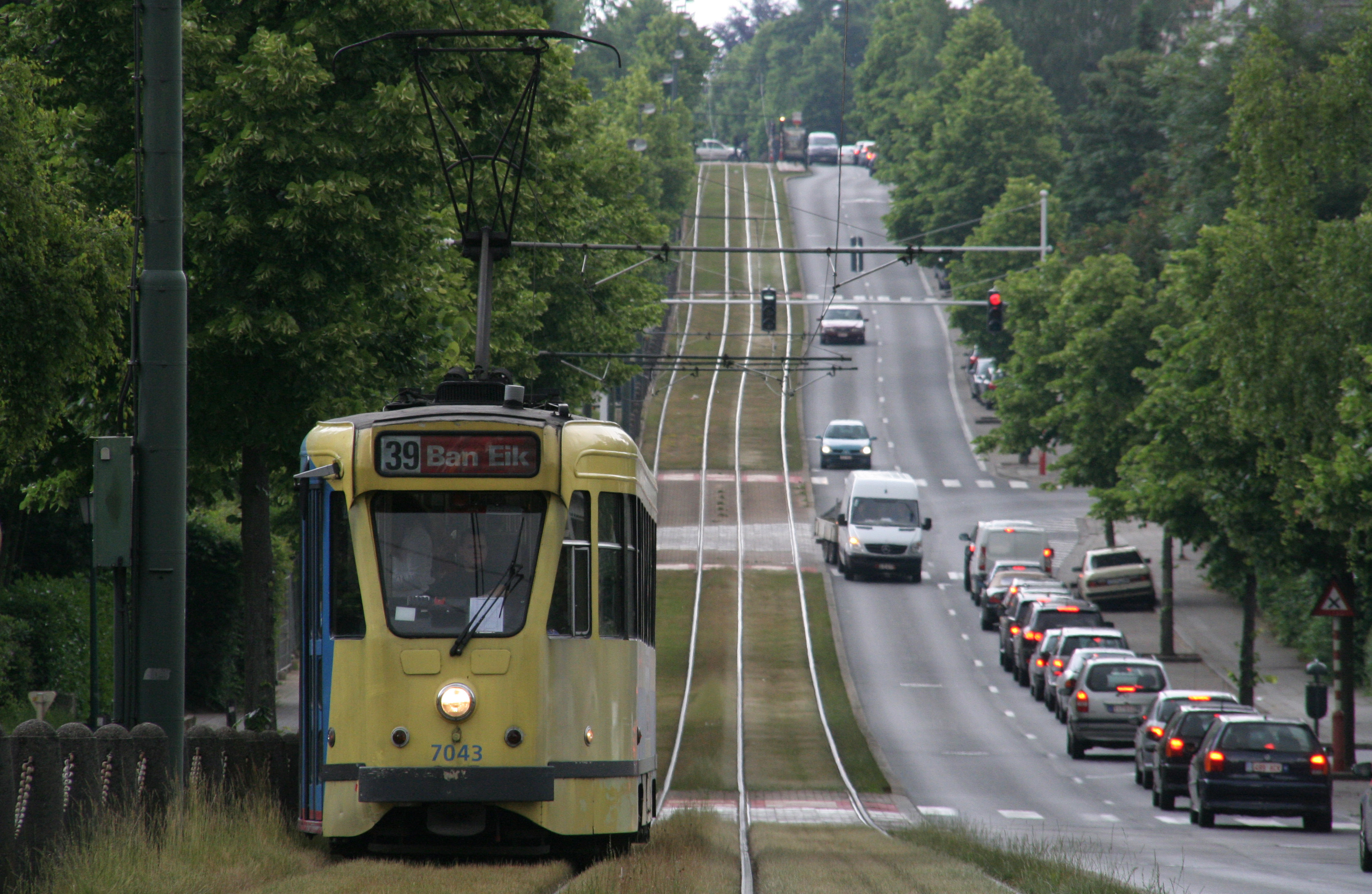 MIVB tram line 39 in Woluwe.